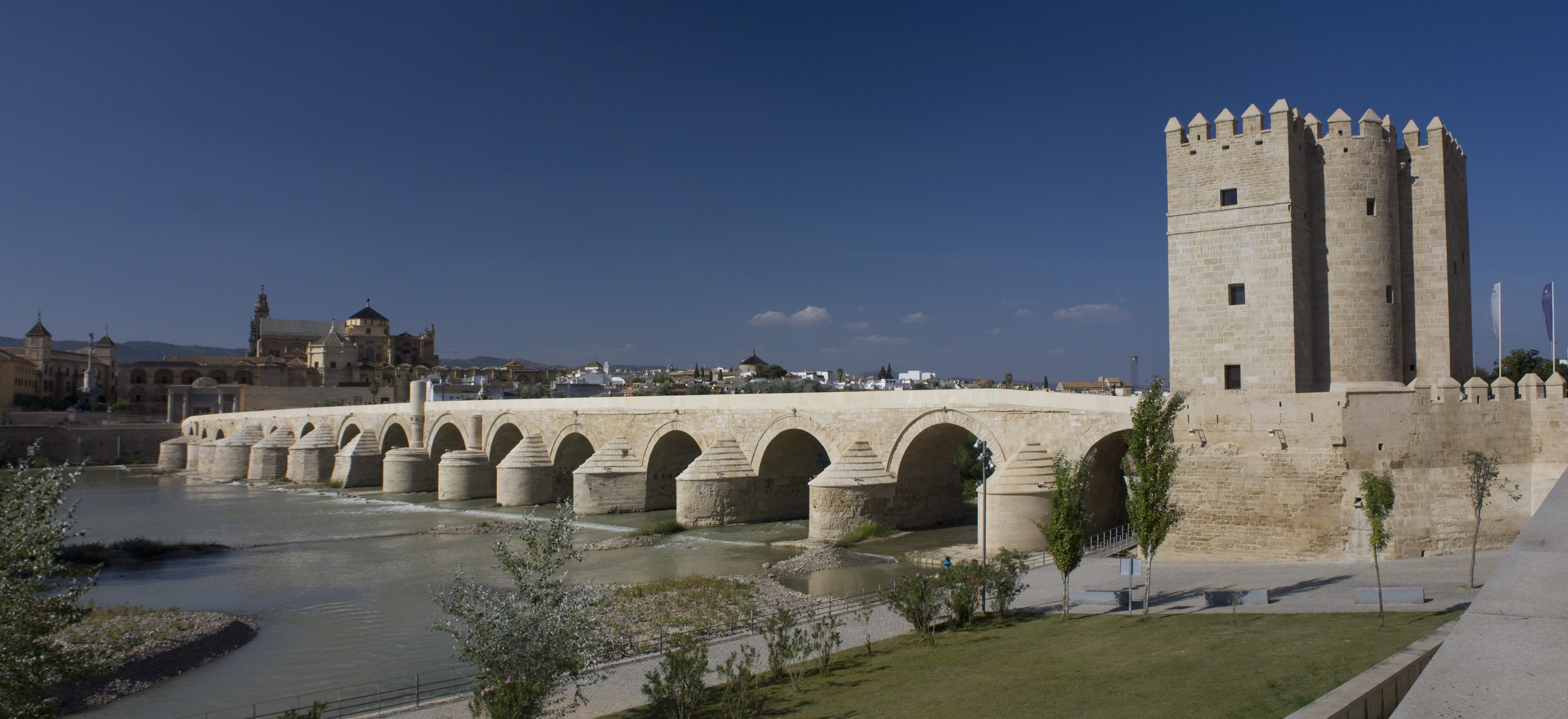 The Roman Bridge seen from the watermill of the Calahorra.